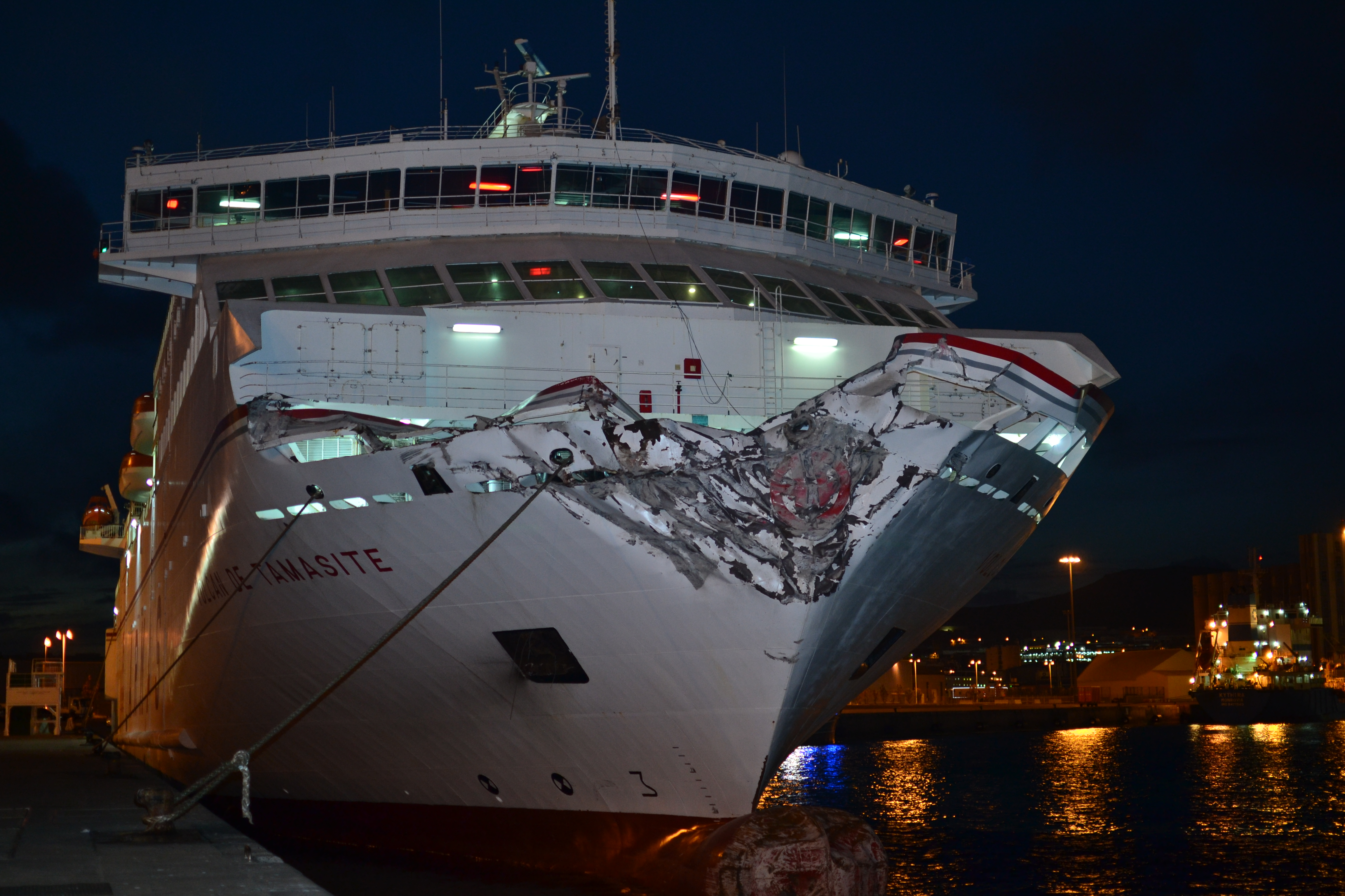 Volcán de Tamasite (launched in 2014) being repaired in the Cambullonero dock of the Port of Las Palmas(Canary Islands, Spain), after the collision against the back of the dock of La Esfinge happened the 21, April of 2017.